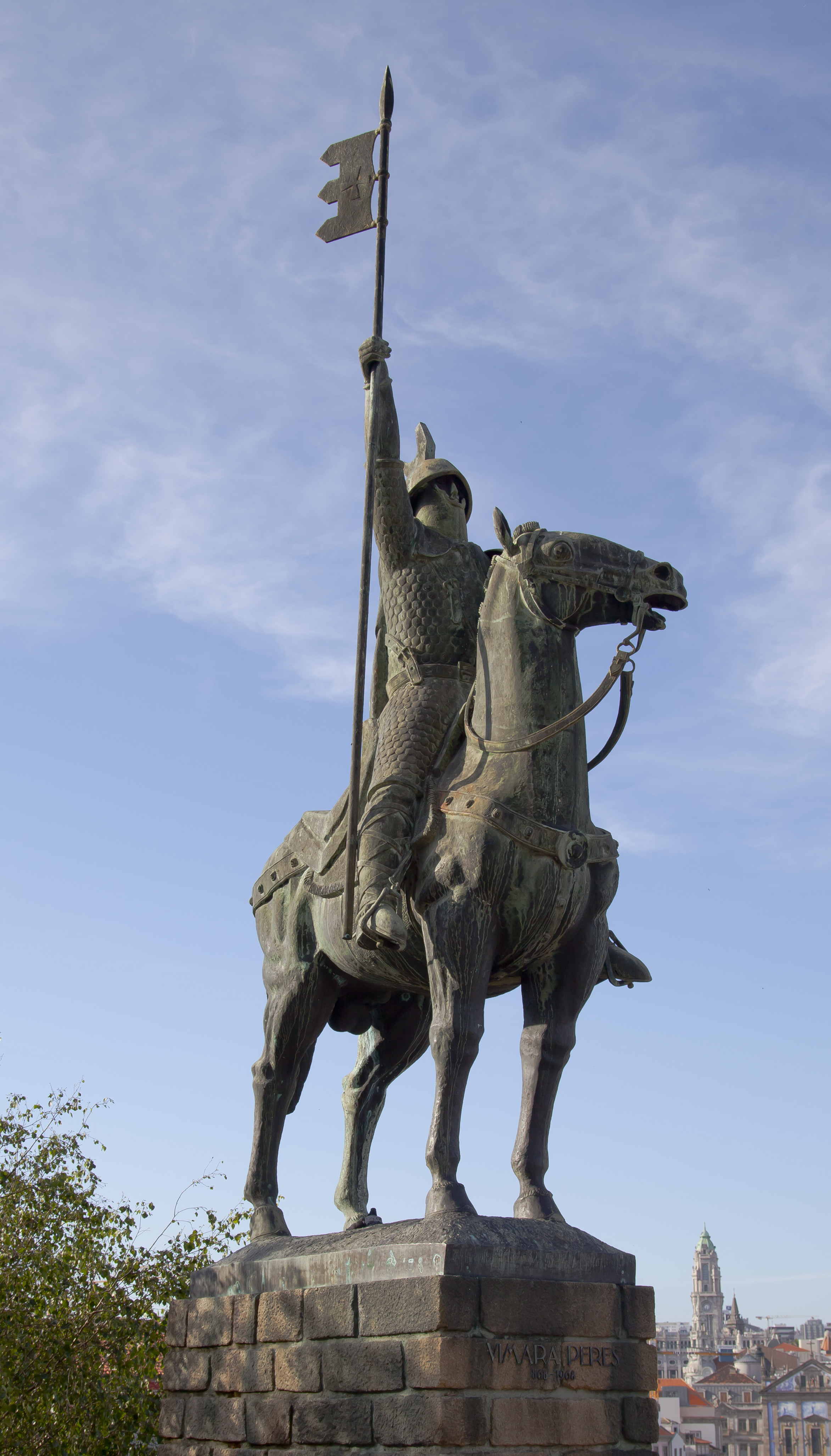 Statue of Vimara Peres, Porto, Portugal